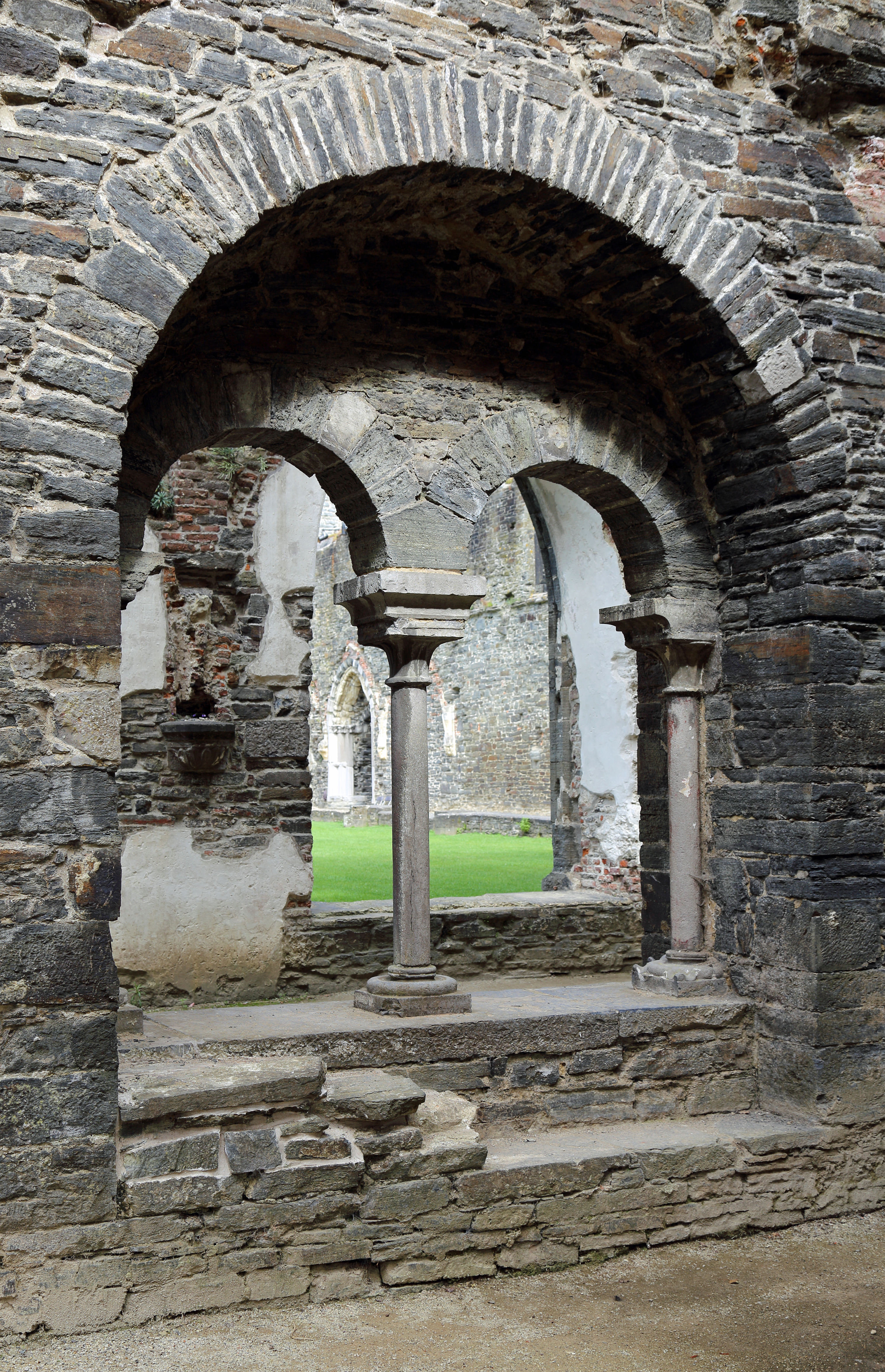 Villers-la-Ville (Belgium): ruins of Villers abbey - the former chapter-room, 12th century window